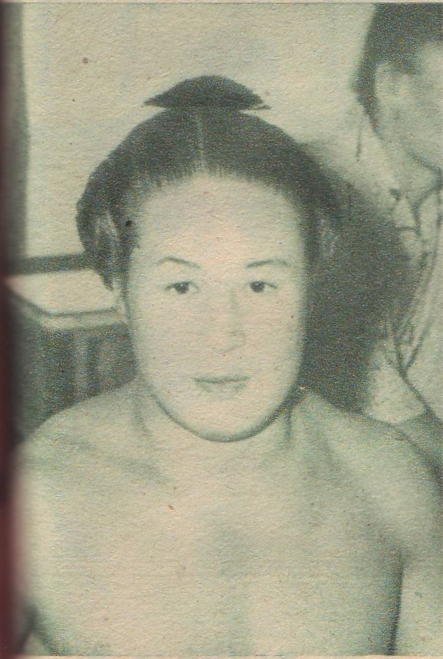 Kaminishiki Kuniyasu (Sumo wrestler from Japan. Maegashira). Shooting earlier than 1955.